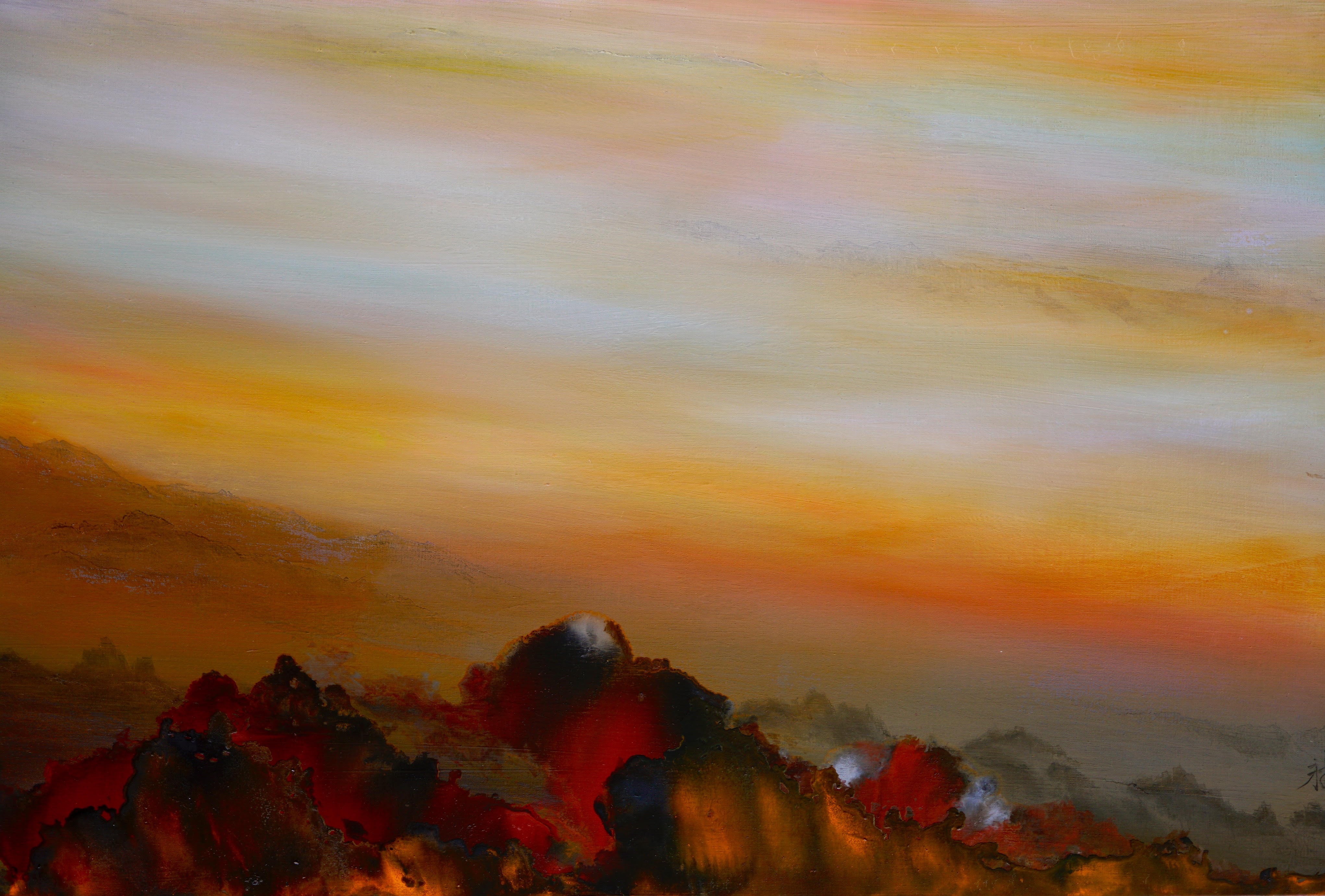 Huile sur toile